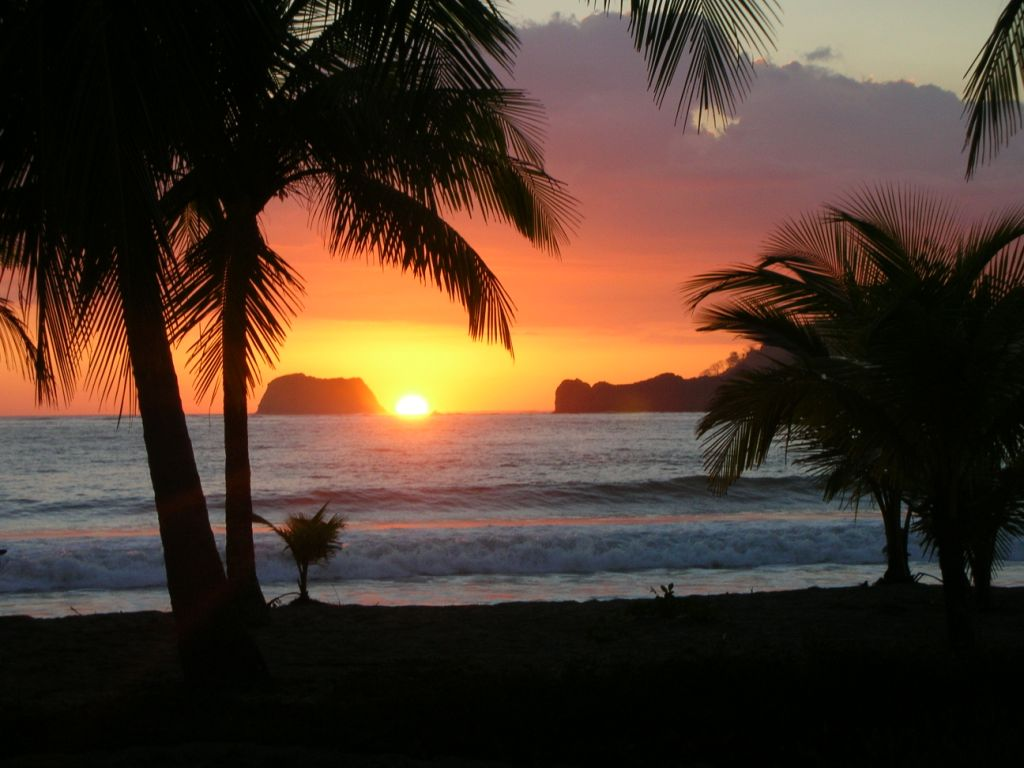 Atardecer de Carrillo